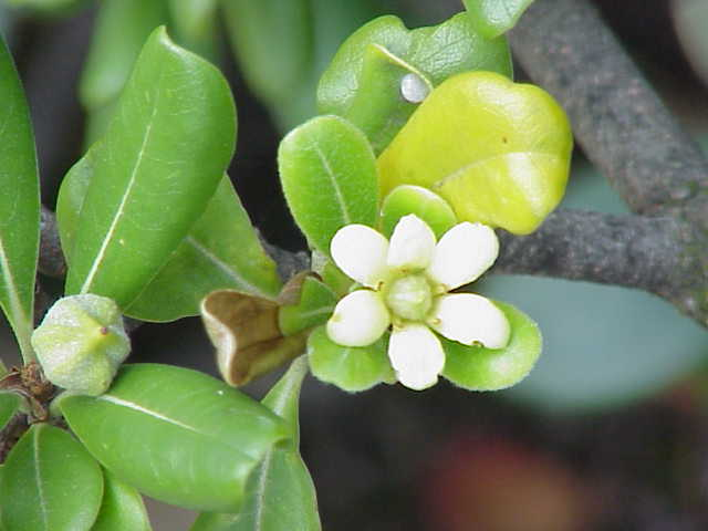 Species: Pittosporum tobira Family: Pittosporaceae Image No. 2